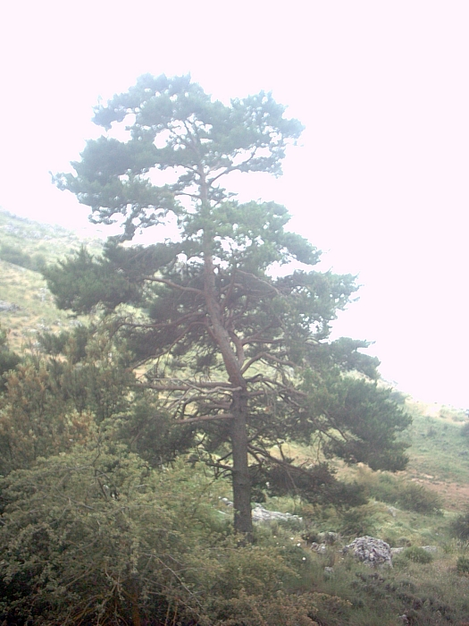 A work release by Francisco Javier Martin Lopez, Pinus sylvestris subsp nevadensis, in Sierra de la Alfaguara, into Parque Natural de la Sierra de Huétor, Granada, Spain 2006, May 31. A free donation to Wikipedia.